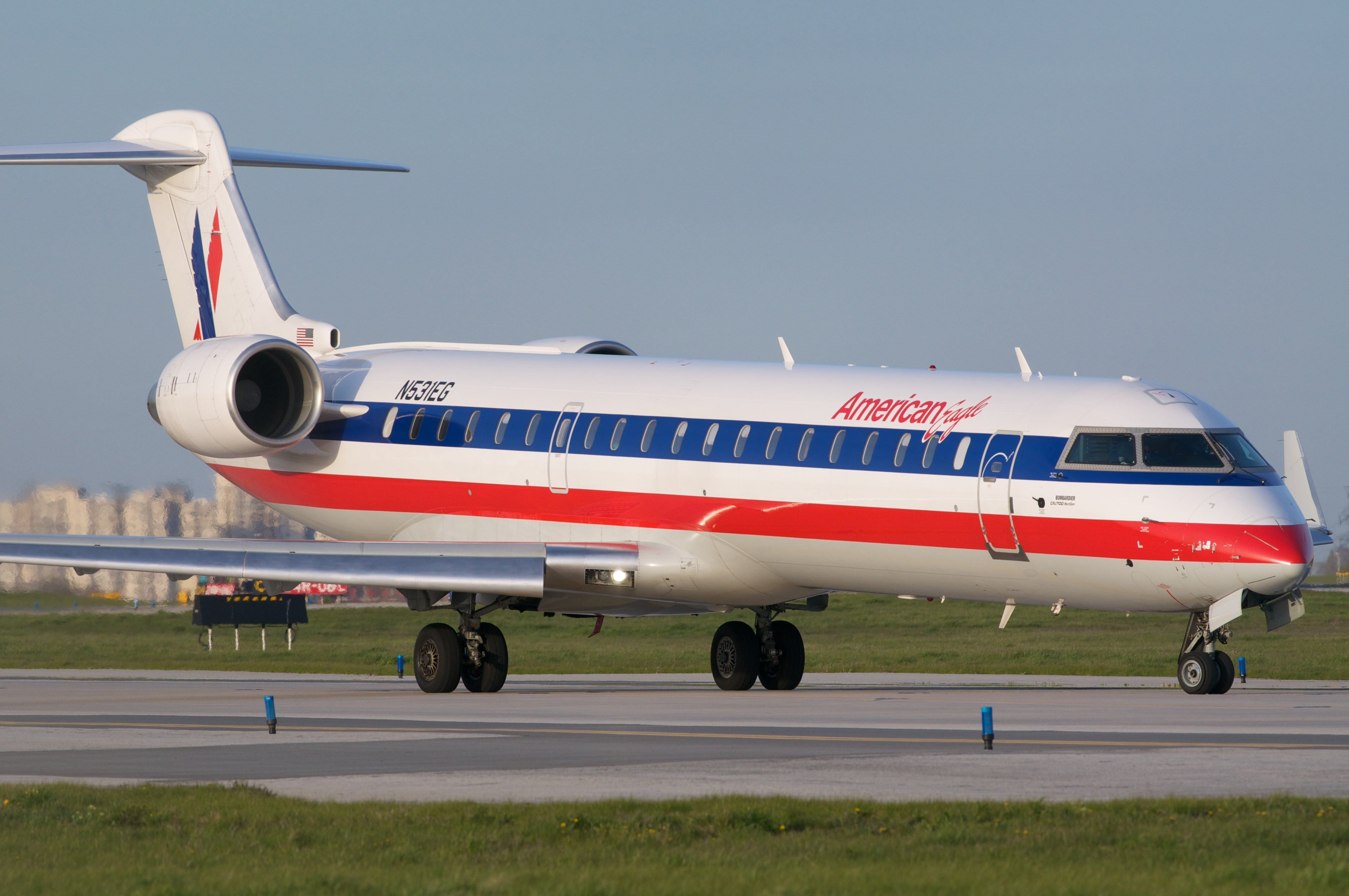 Lining up for Runway 6L